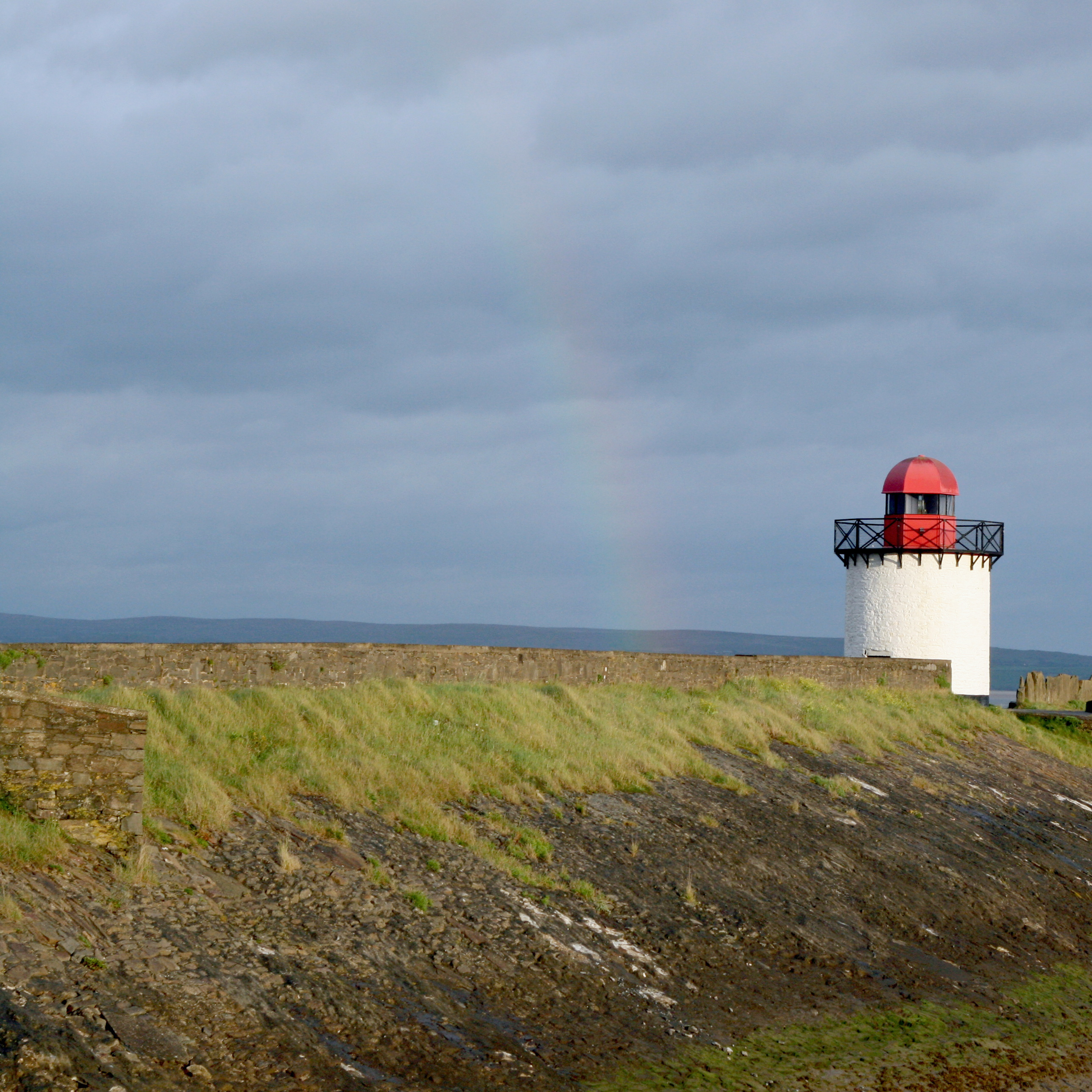 The lighthouse in Burry Port, Wales, during a storm. Taken in May 2007 by me.